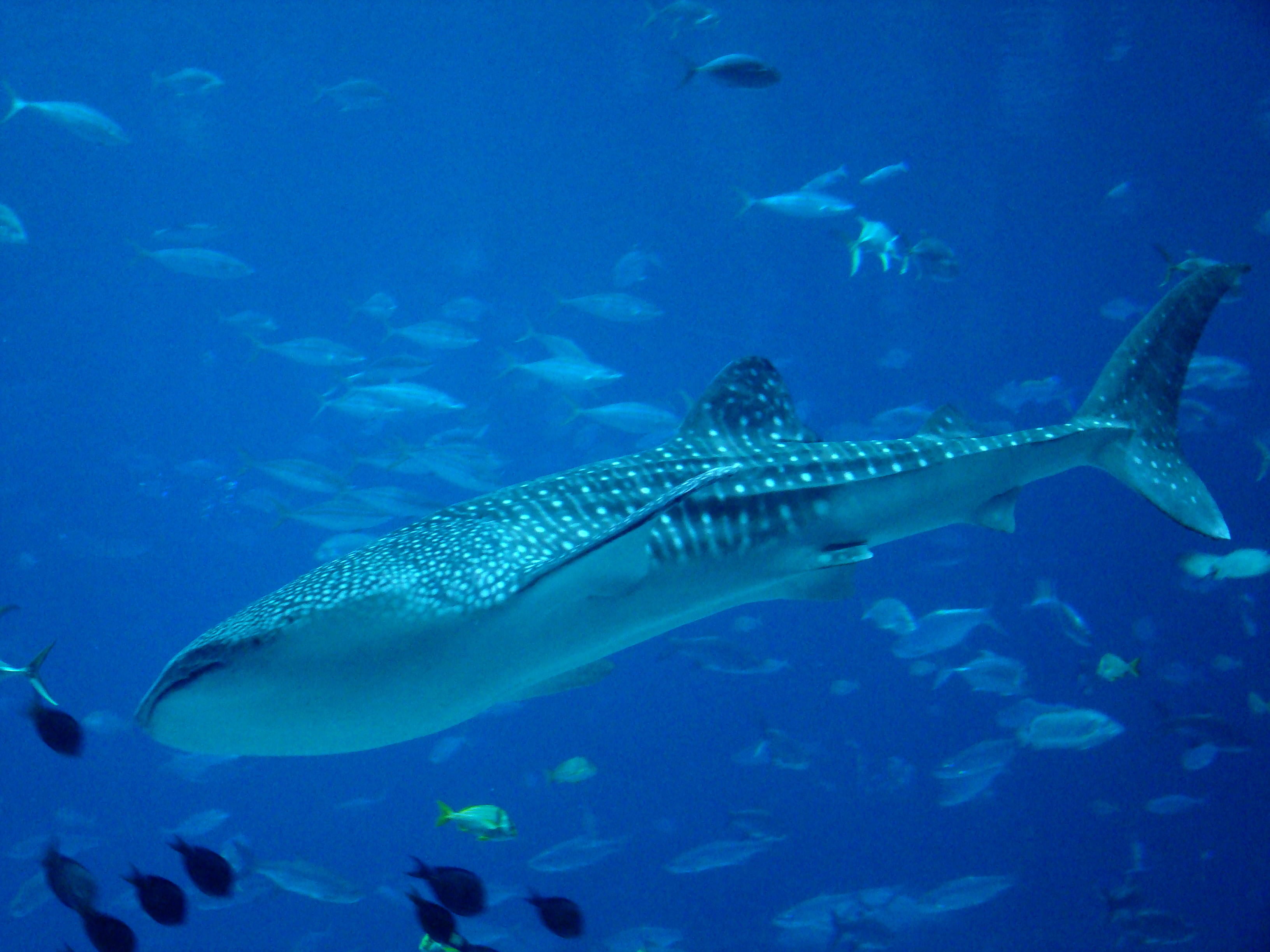 A whale shark and other sea-critters swimming at the Georgia Aquarium, Atlanta, Georgia.